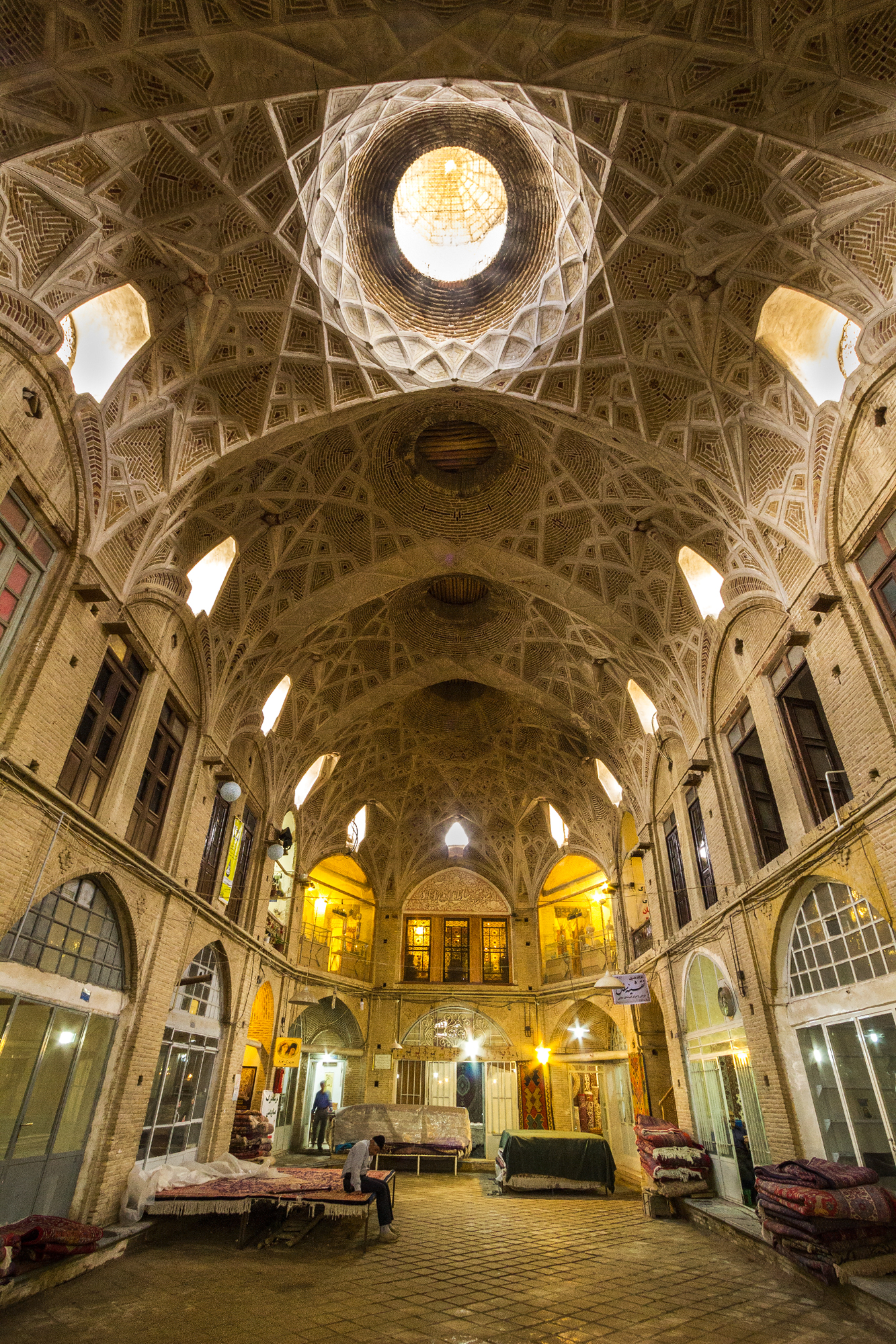 The Old Bazaar of Arak